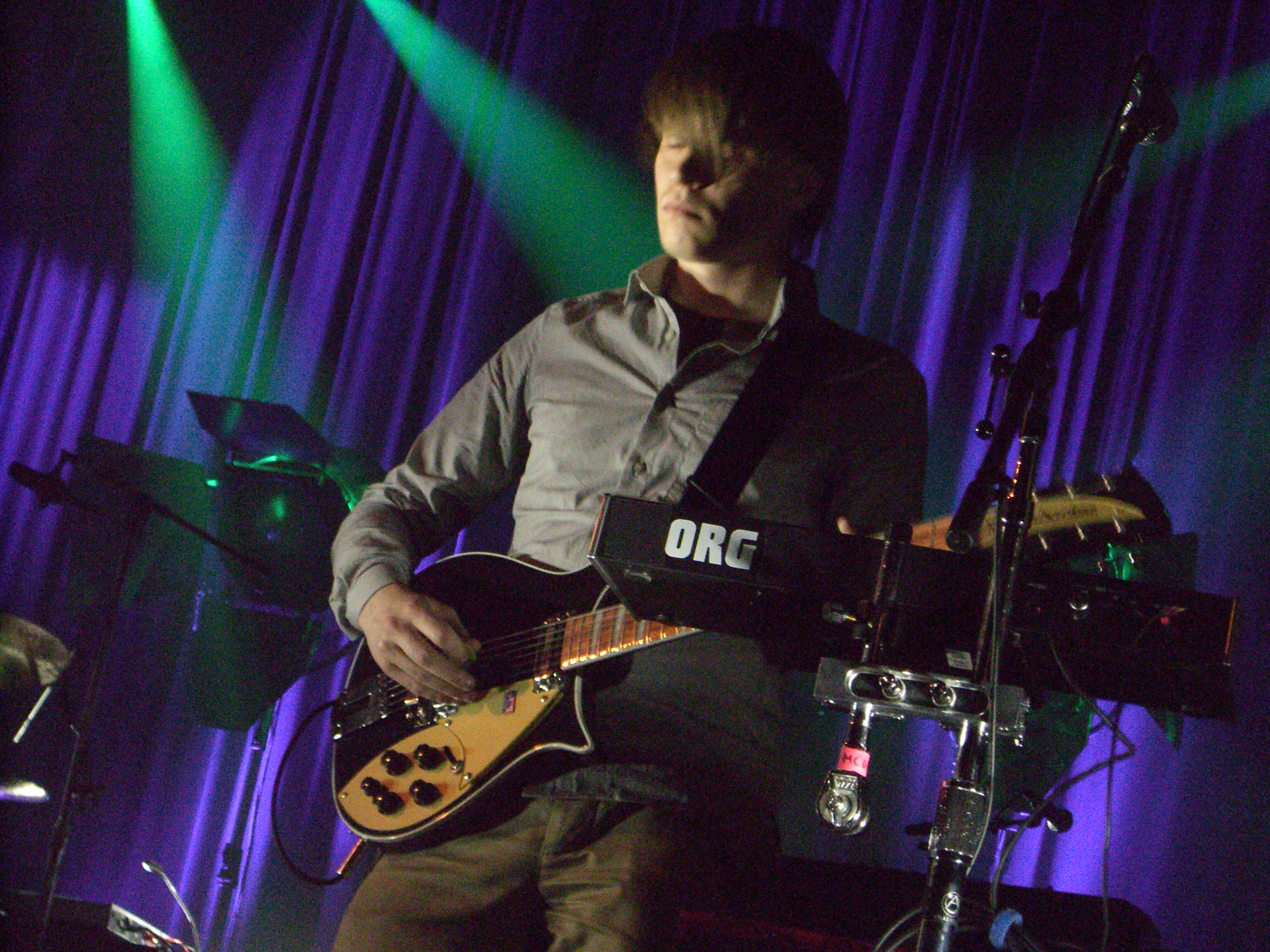 Chris Walla of Death Cab for Cutie performing in Eugene, OR in 2008